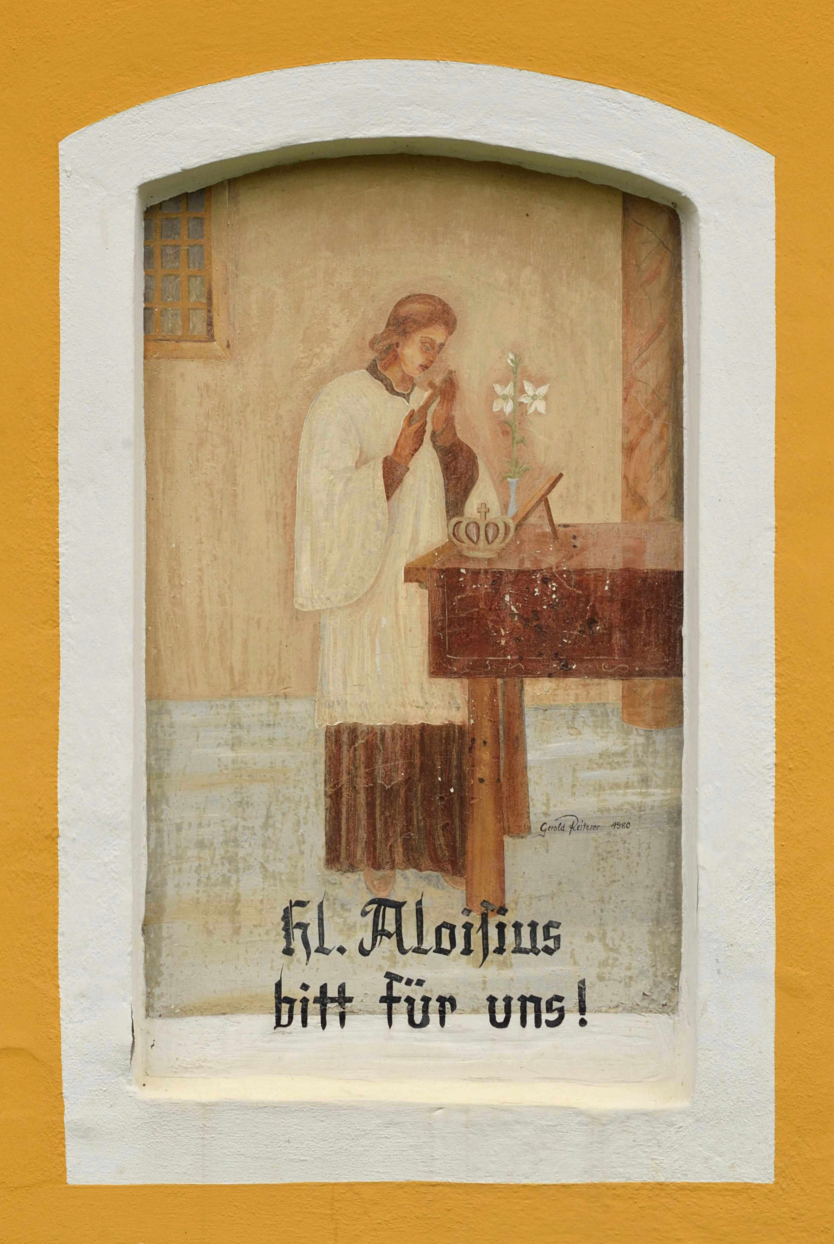 Detail of the wayside shrine at Haslach, municipality Gleinstätten, Styria. Painting of Saint Aloysius by Gerold Reiterer, 1980.